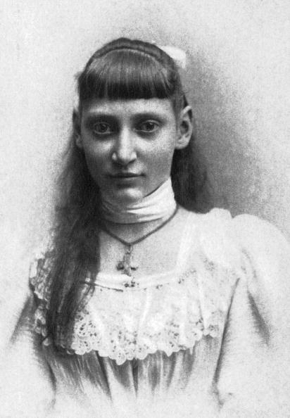 Princess Thyra of Denmark (1880–1945), daughter of Frederick VIII of Denmark and Princess Louise of Sweden and Norway in her youth.